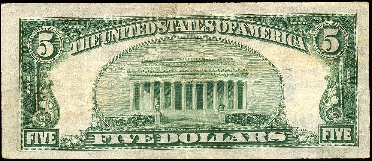 Vojenské vydání pětidolarové bankovky, kryté zlatem (Yellow Seal) pro invazi do Severní Afriky, 1942. Emise 1934.